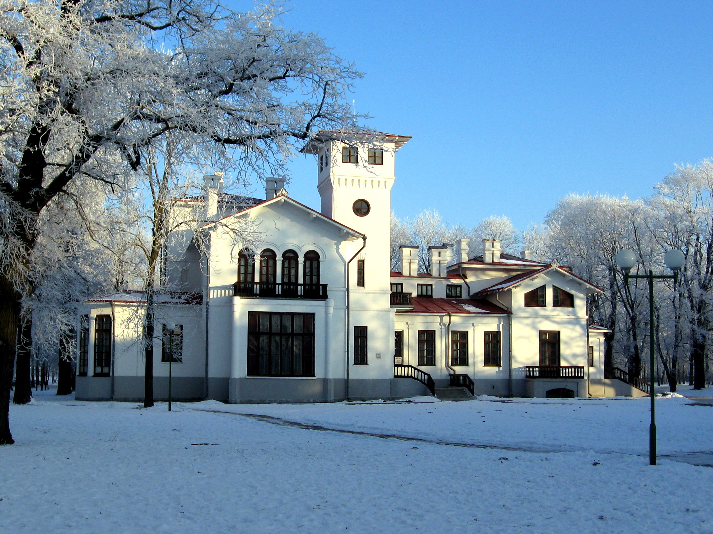 Беларуская (тарашкевіца): Пружанскі палацык. Зіма. This is a photo of Belarusian heritage monument. Reference number: 112Г000585 ( WLM)